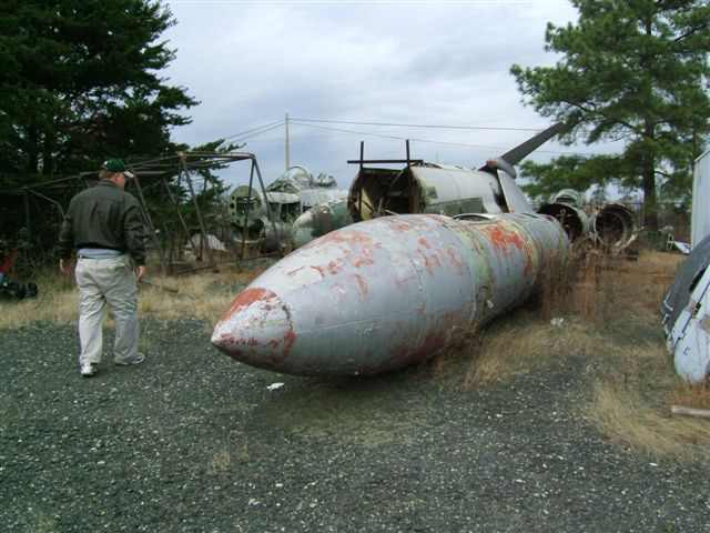 Unrestored Matador Missile at Carolinas Aviation Museum, Charlotte, NC 2006